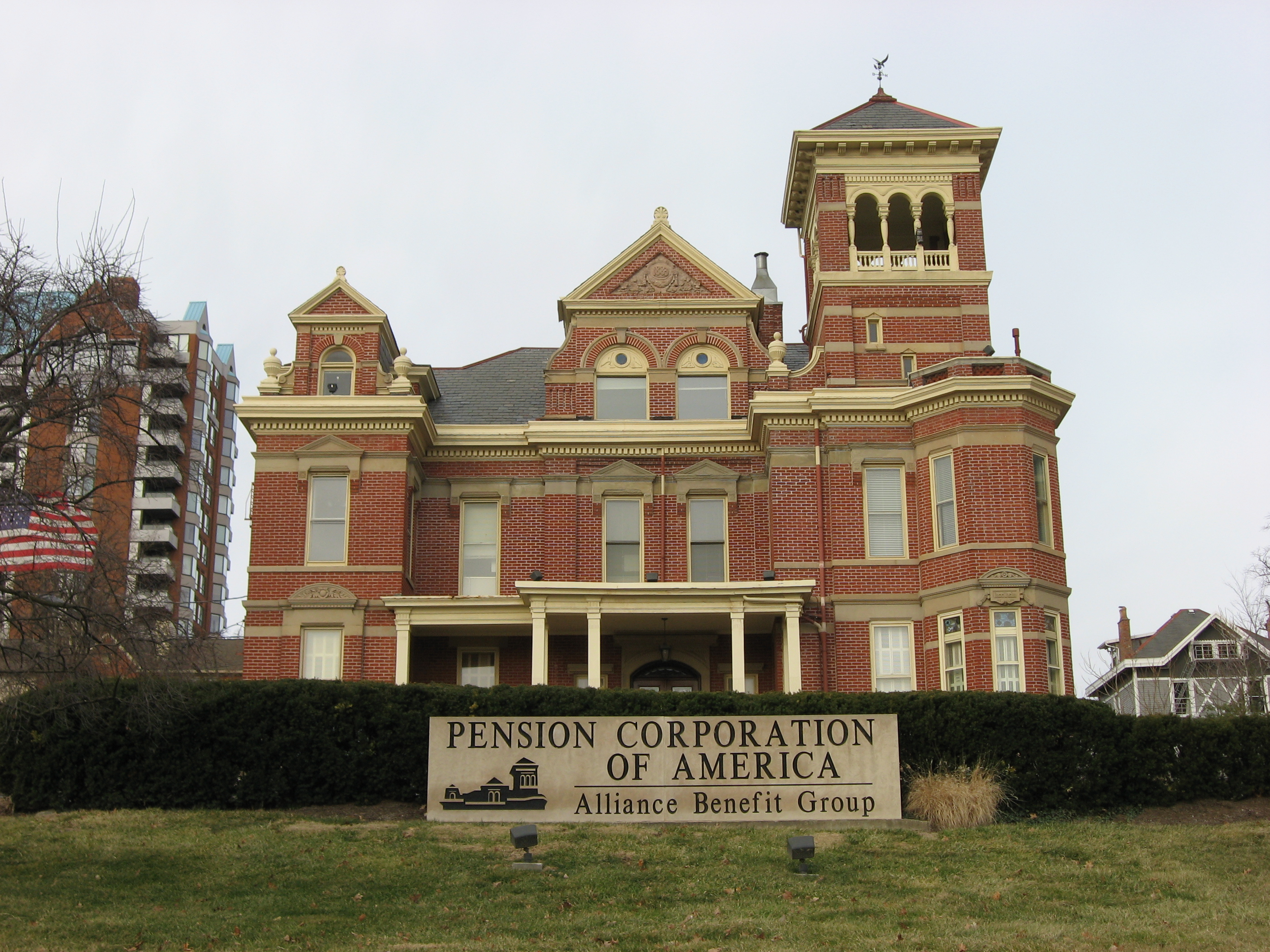 Front of the Frederick Lunkenheimer House, located at 2133 Luray Avenue in the Walnut Hills neighborhood of Cincinnati, Ohio, United States. Built in 1883, it is listed on the National Register of Historic Places.